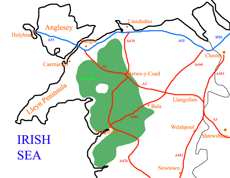 Map of Snowdonia in relation to North Wales.